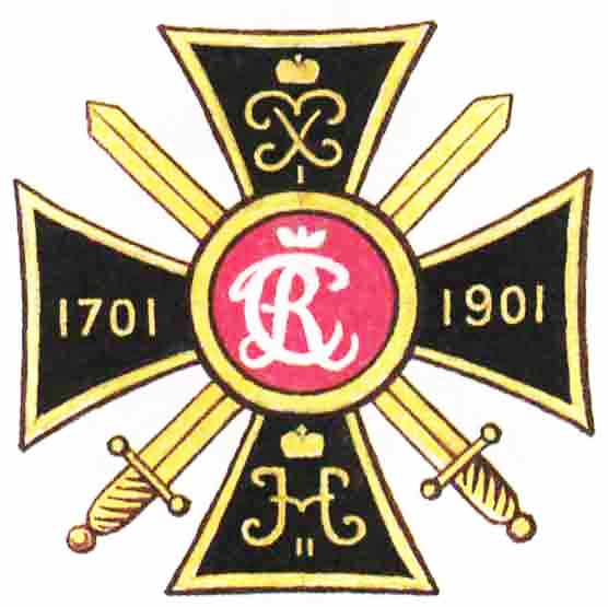 Badge of Seversky 18-th Dragoon Regiment